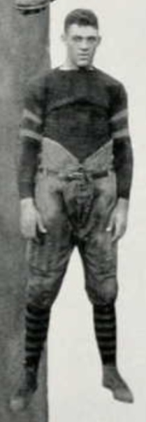 Vanderbilt end Thomas Ryan circa 1921.